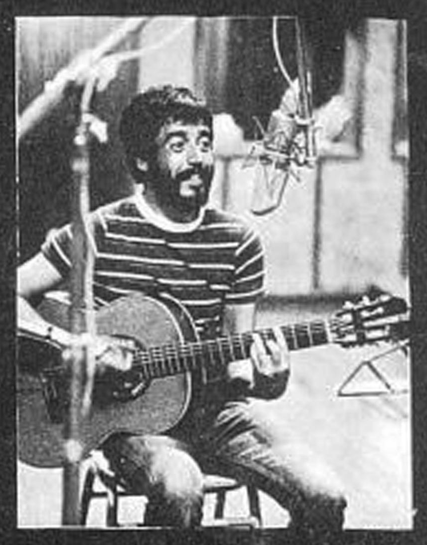 Picture of Eduardo Mateo at ION estudio, Buenos Aires, Argentina. Work from LP cover: "Mateo solo bien se Lame" (argentine edition).